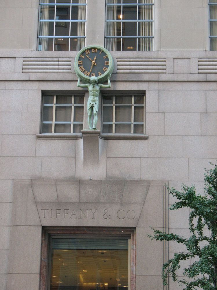 Atlas with the clok of the Tiffany & Company Building, 727 Fifth Avenue